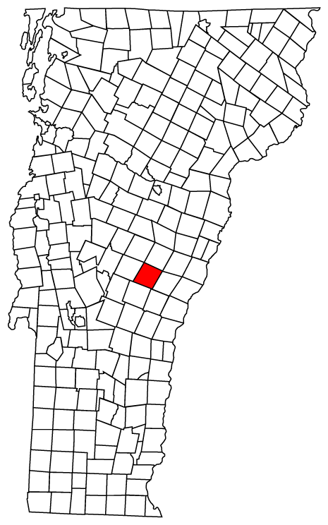 Description: Map of Vermont towns with Royalton highlighted Source: Map created by Jared C. Benedict on 26 March 2004. Copyright: © Jared C. Benedict.